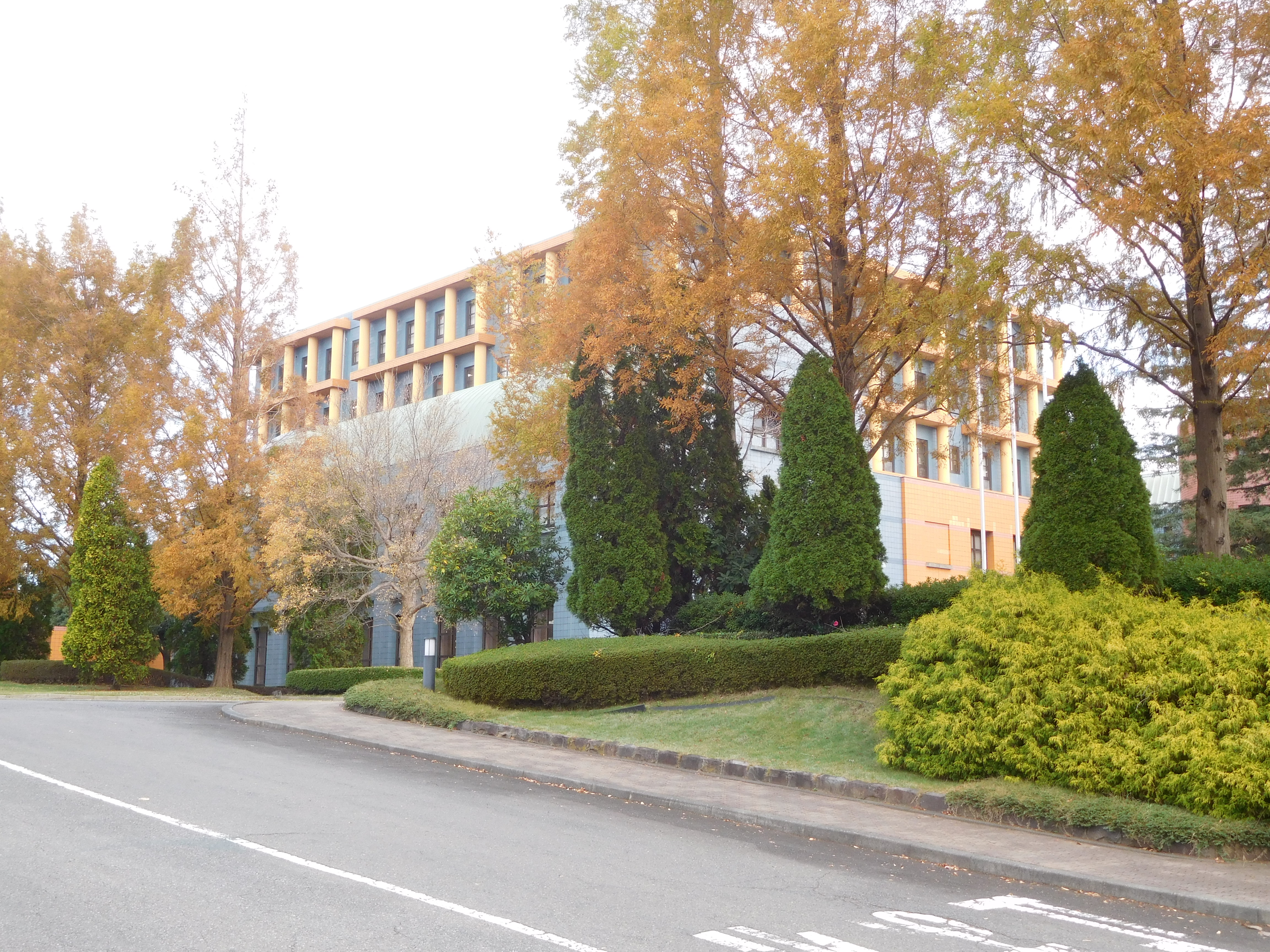 This is the head office of Kasumi Co., Ltd. It is also the head office of WonderCorporation.